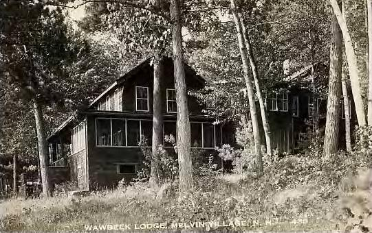 Wawbeek Lodge, Melvin Village, Tuftonboro, NH; from a c. 1920 postcard.